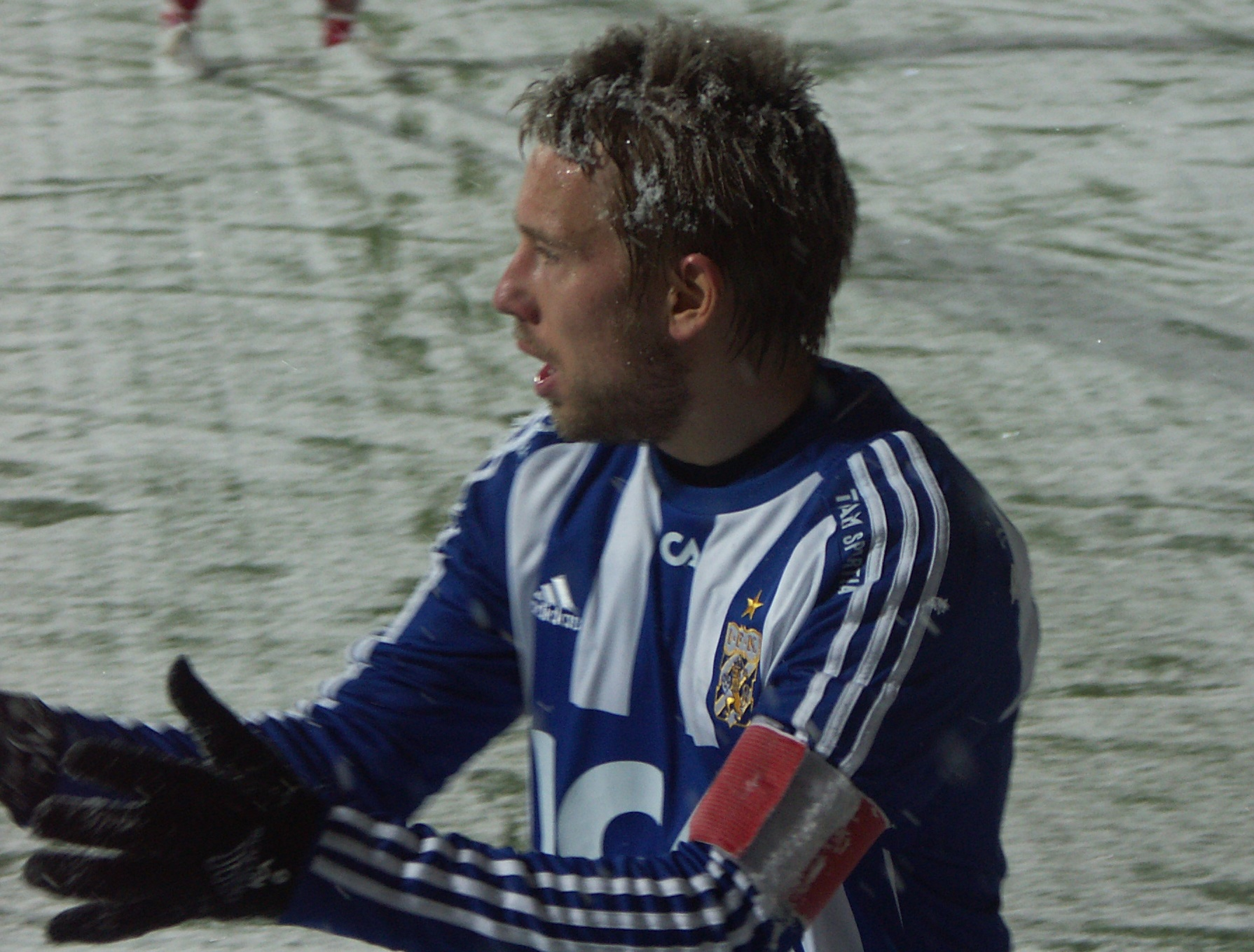 Adam Johansson of IFK Göteborg was captain in a friendly pre-season match in Göteborg against norwegian team Fredrikstad FK.